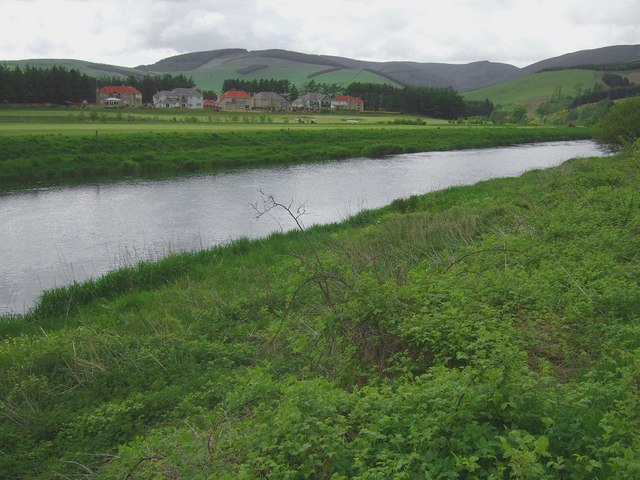 The Tweed. New homes near the golf course at Cardrona with the edge of Glentress Forest near Dunslair Heights in the background. Looking in the other direction near to where this shot is taken: 233230